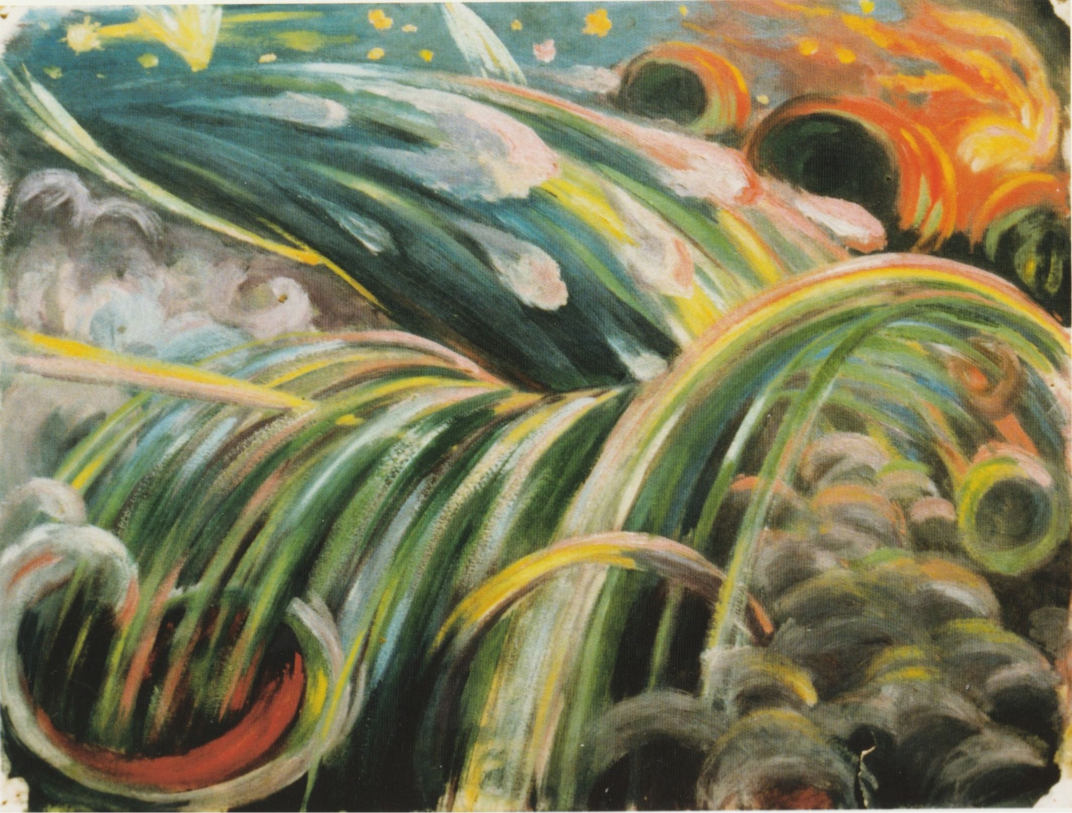 Painting "Cosmos" oil on canvas